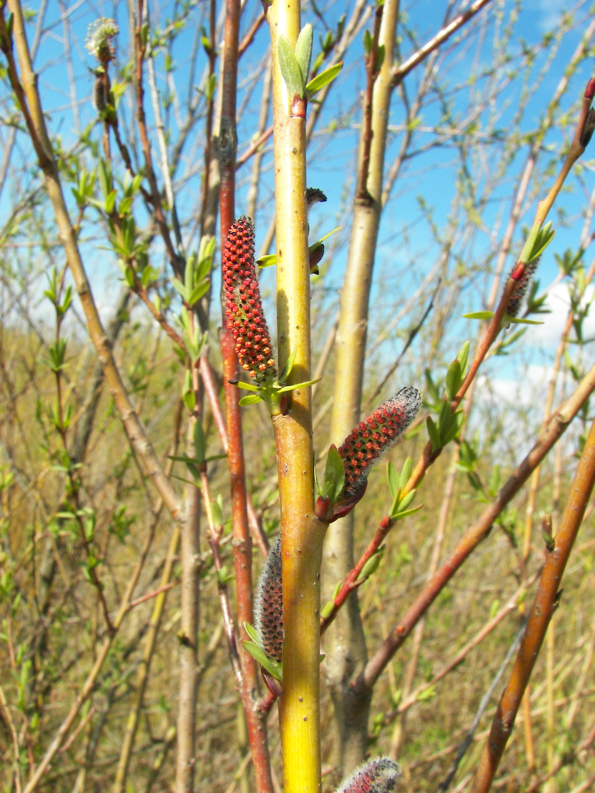 Purple Willow (Salix purpurea), male catkins, Location: Lahntal-Goßfelden, Hesse, Germany